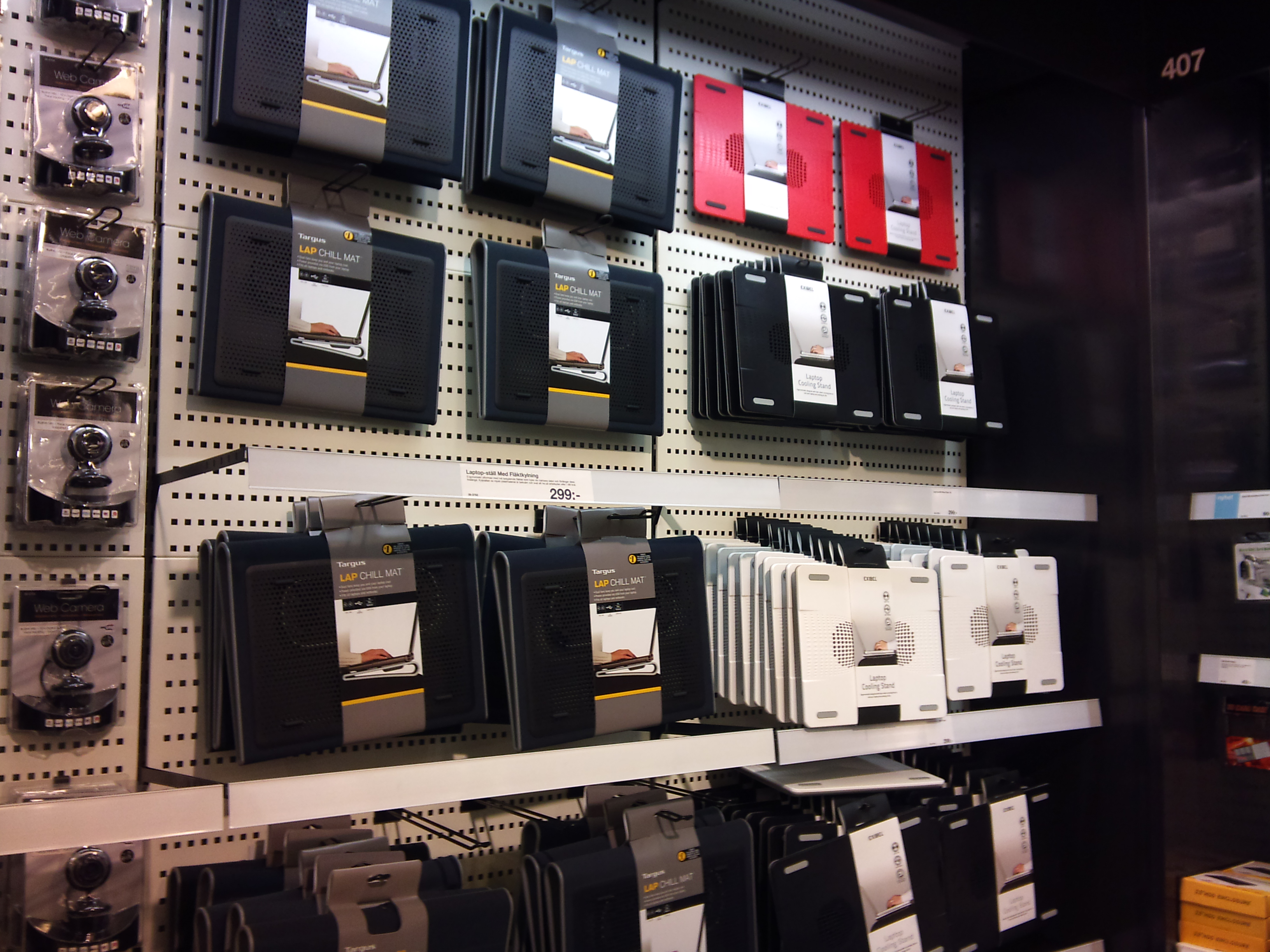 Laptop coolers in a Clas Ohlson store in the shopping mall Triangle (Swedish: Triangeln) in the city of Malmo.